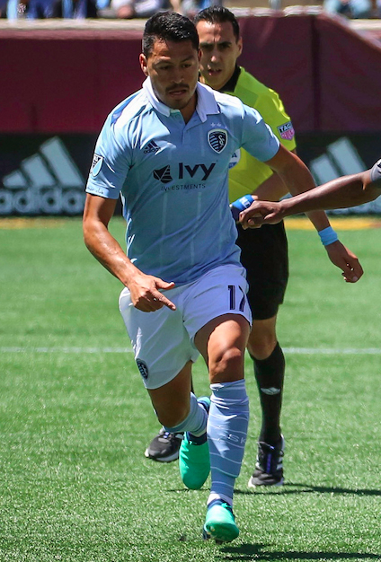 Espinoza during a MLS game against Minnesota United. This file has been extracted from another file: Minnesota United - MNUFC v Sporting KC - TCF Bank Stadium (28389370878).jpg